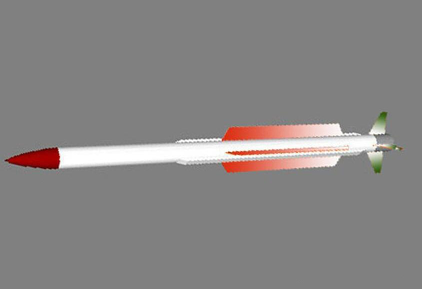 I created this art.This artistic image belongs to me i.e wiki4rahul(INDIA).